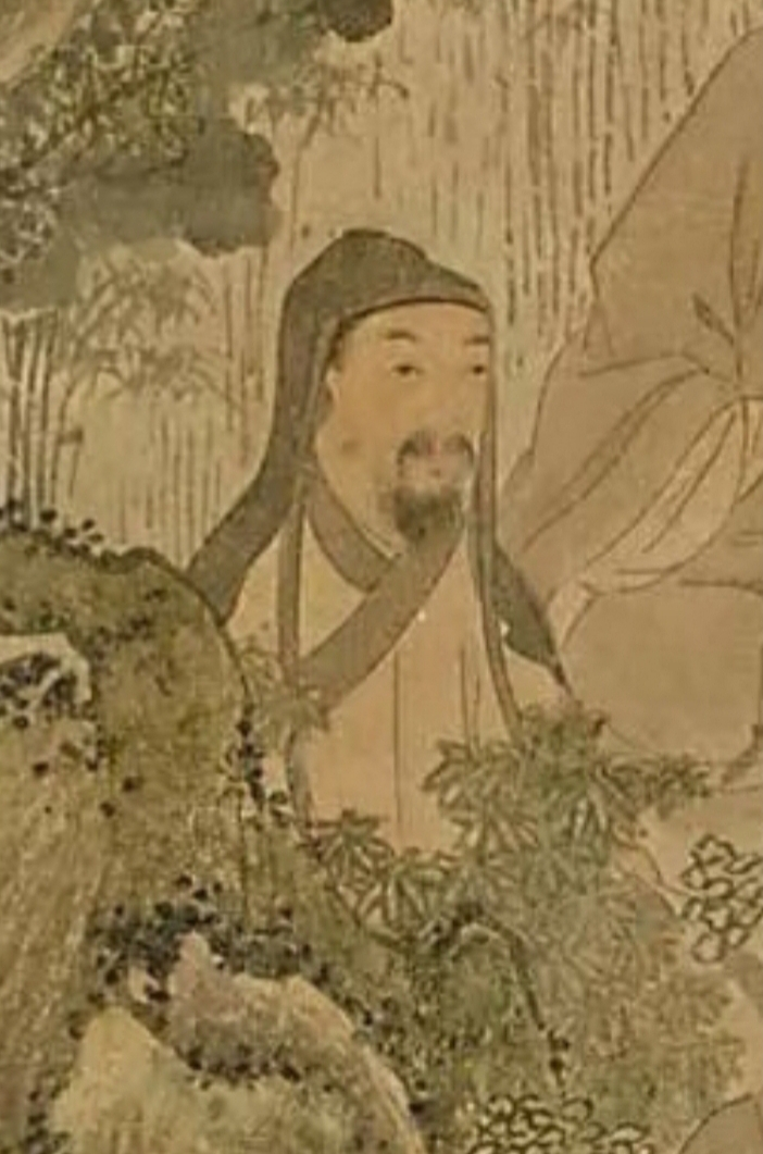 Zhao Huan Guang, calligrapher, writer of the late Ming Dynasty.